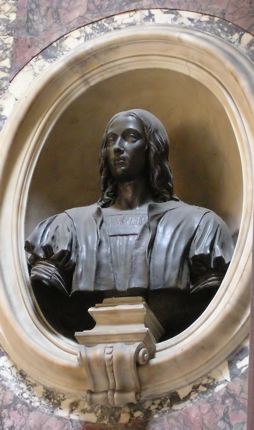 Bronze bust of Raphael on top of the artist's tomb at the Pantheon in Rome. Photographed by Adrian Pingstone in June 2007 and placed in the public domain.